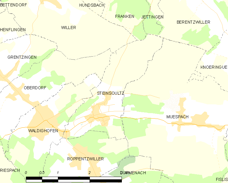 Map of French municipality